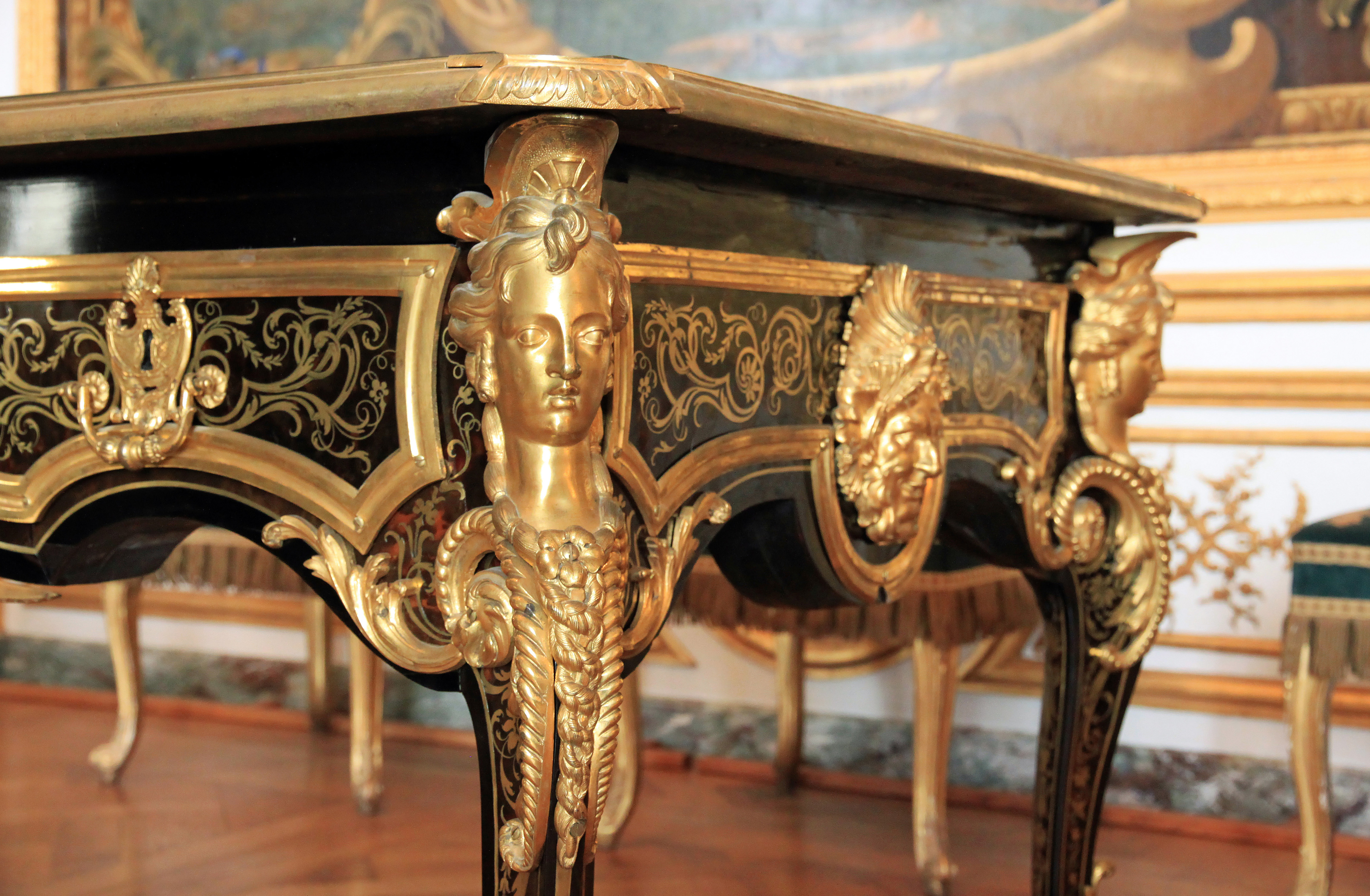 Detail from the bureau plat (writing table) made c. 1715 by André-Charles Boulle (1642-1732) for Louis Henri, Duke of Bourbon. The bureau measures 198 x 93 cm.